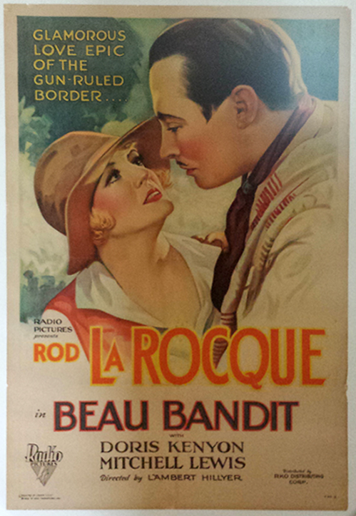 Beau Bandit (1930), U.S. 1SH Movie Poster